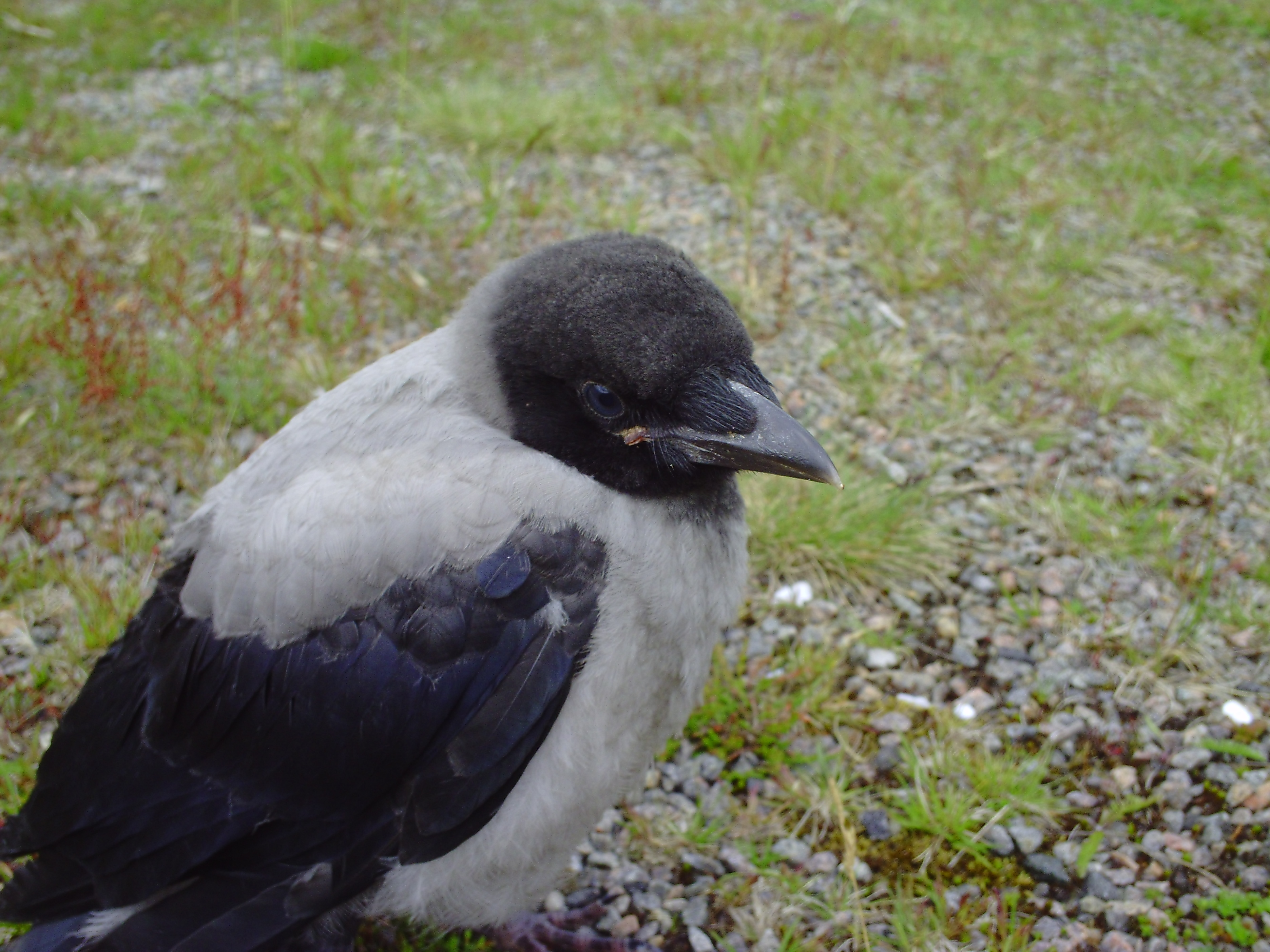 A Corvus corone cornix in Årnäshalvön, Sweden.